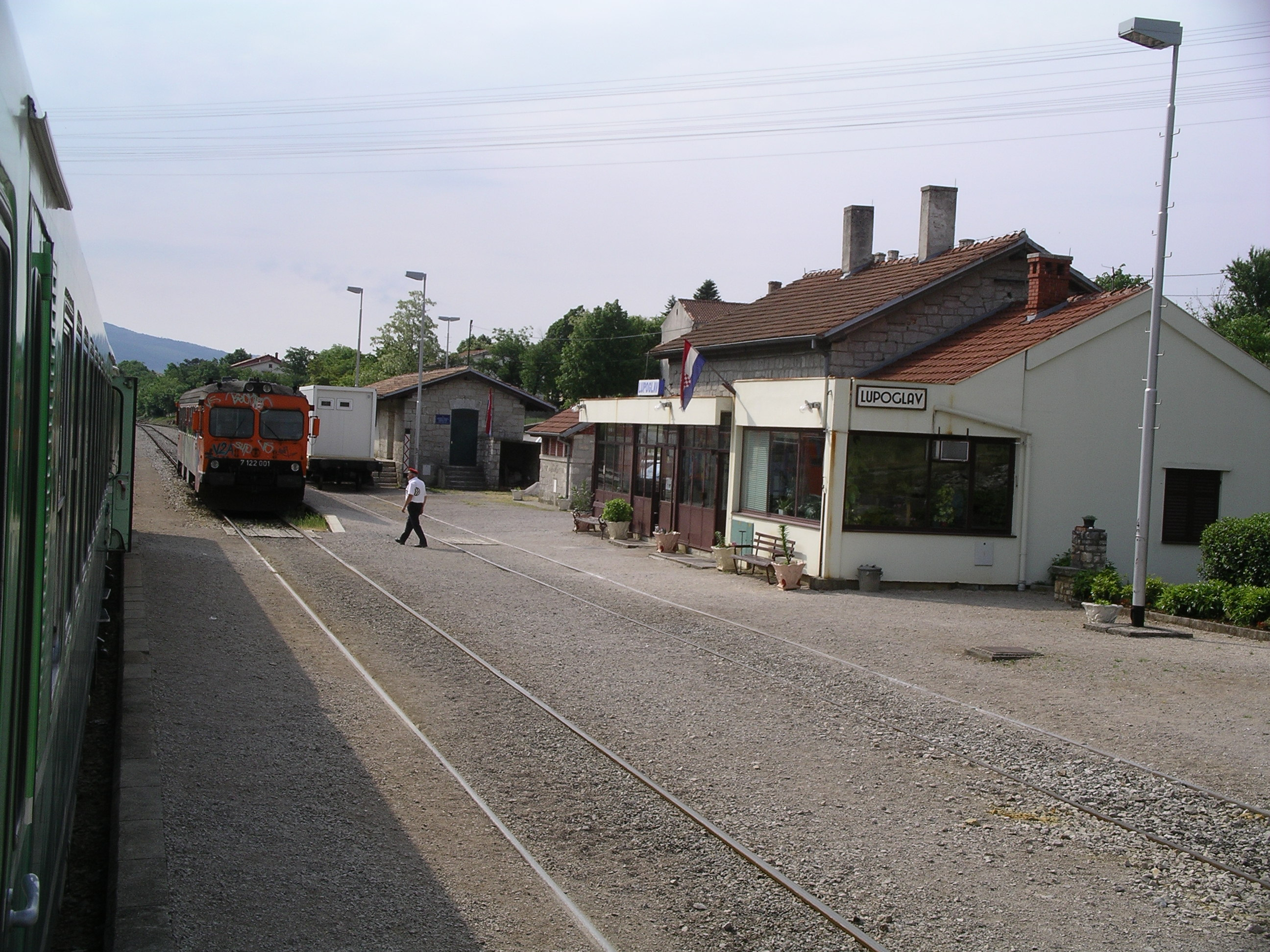 Lupoglav railway station in Croatia